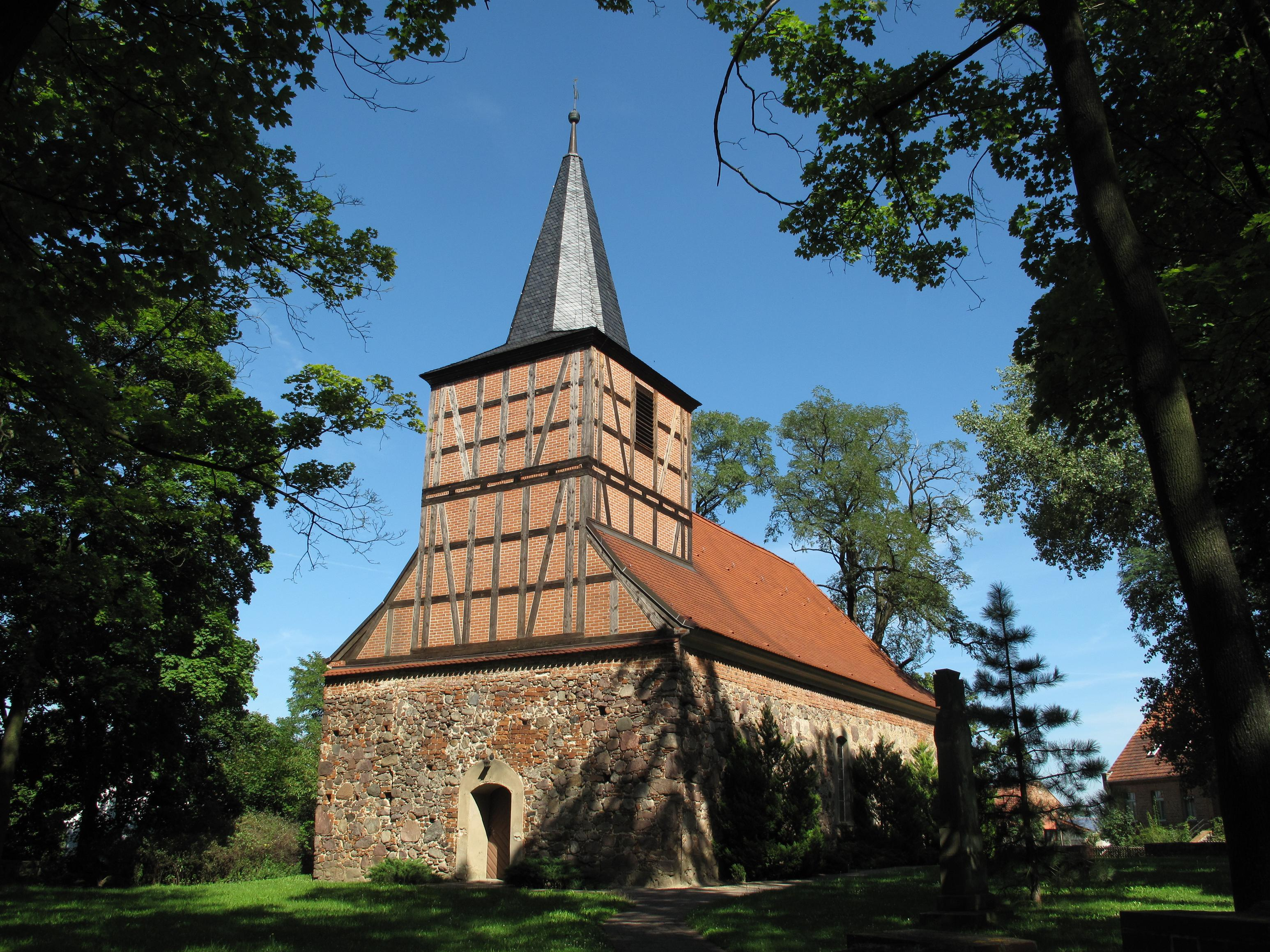 Village church Merz. Listed and restored late Gothic art Fieldstone church. Merz is a part of the municipality Ragow-Merz in the District Oder-Spree, Brandenburg, Germany.